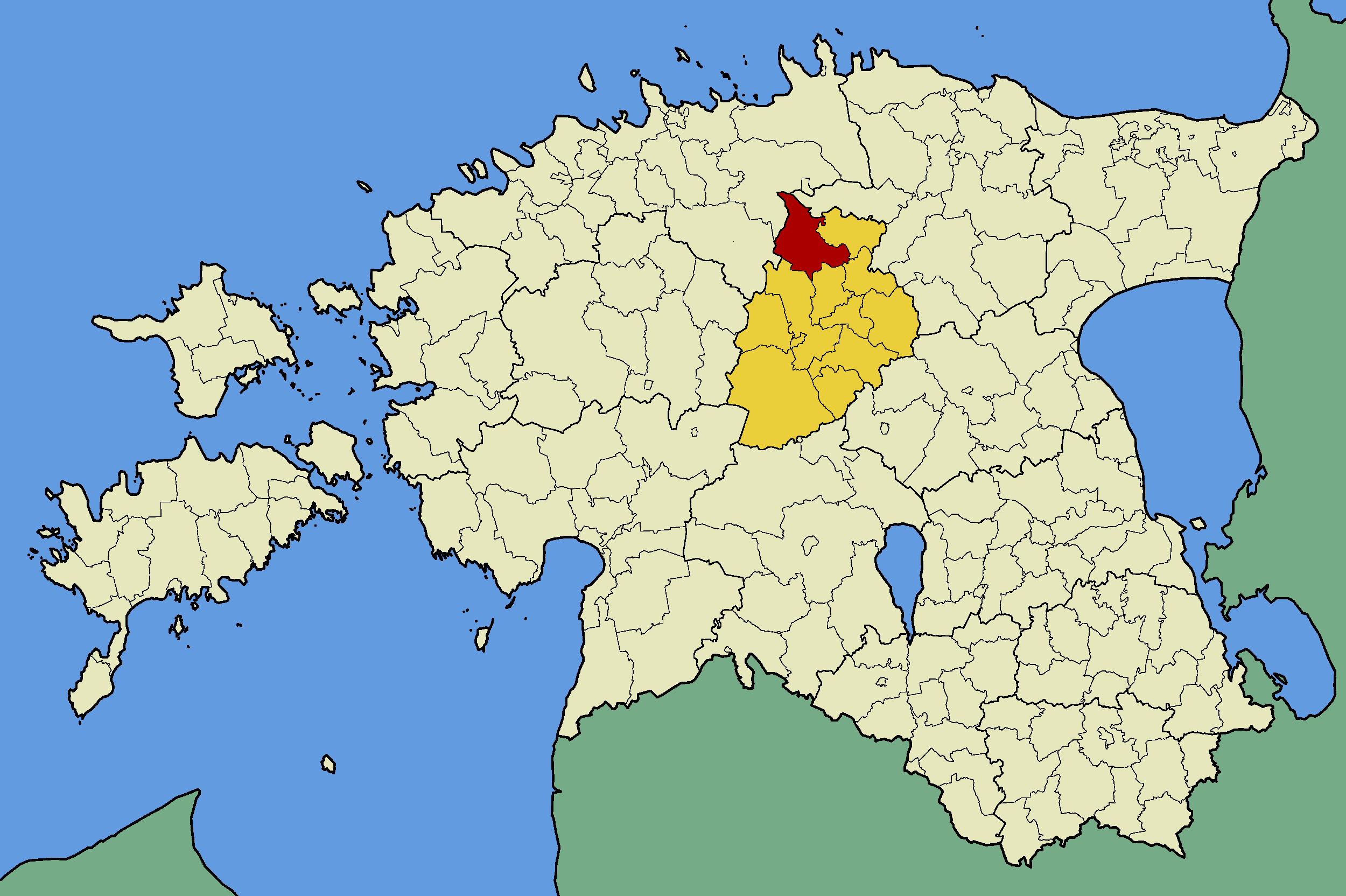 Map of Estonia with borders of municipalities (parishes). Järva county and Albu municipality emphasized.